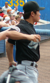 I took this photo on June 5, 2007 04:50, 8 June 2007 . . Chrisjnelson . . 177×292 (92,674 bytes)